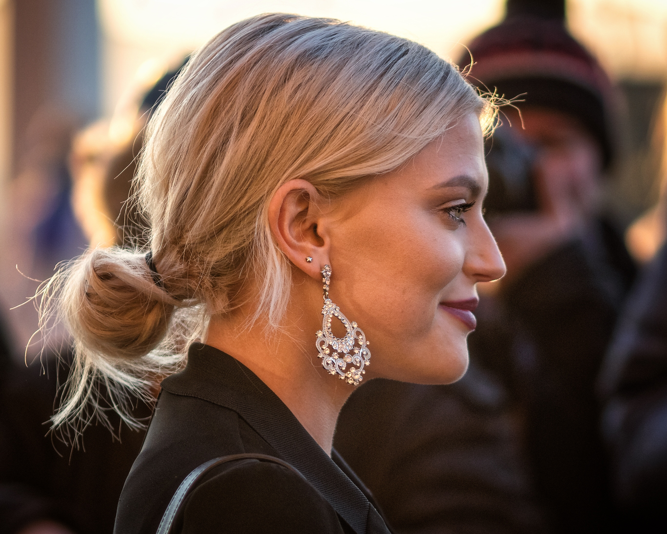 English actress Lucy Fallon outside Blackpool Tower attending Strictly Come Dancing live show, November 2018